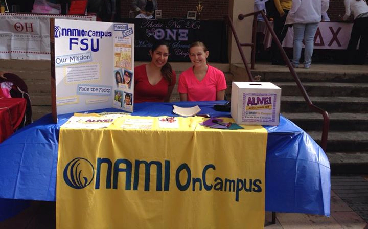 NAMI On Campus Tabeling